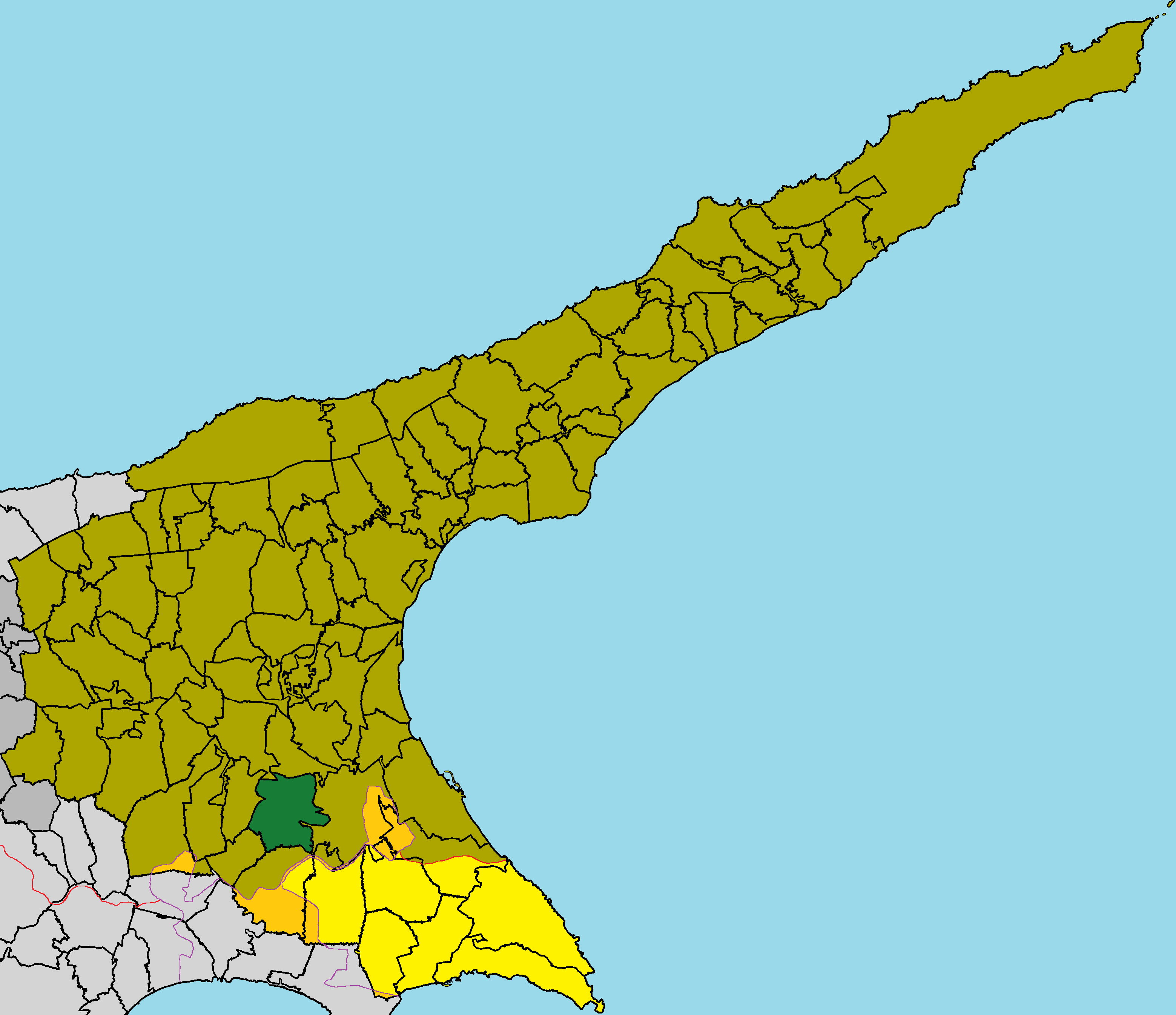 Kalopsida in Famagusta District (de jure).